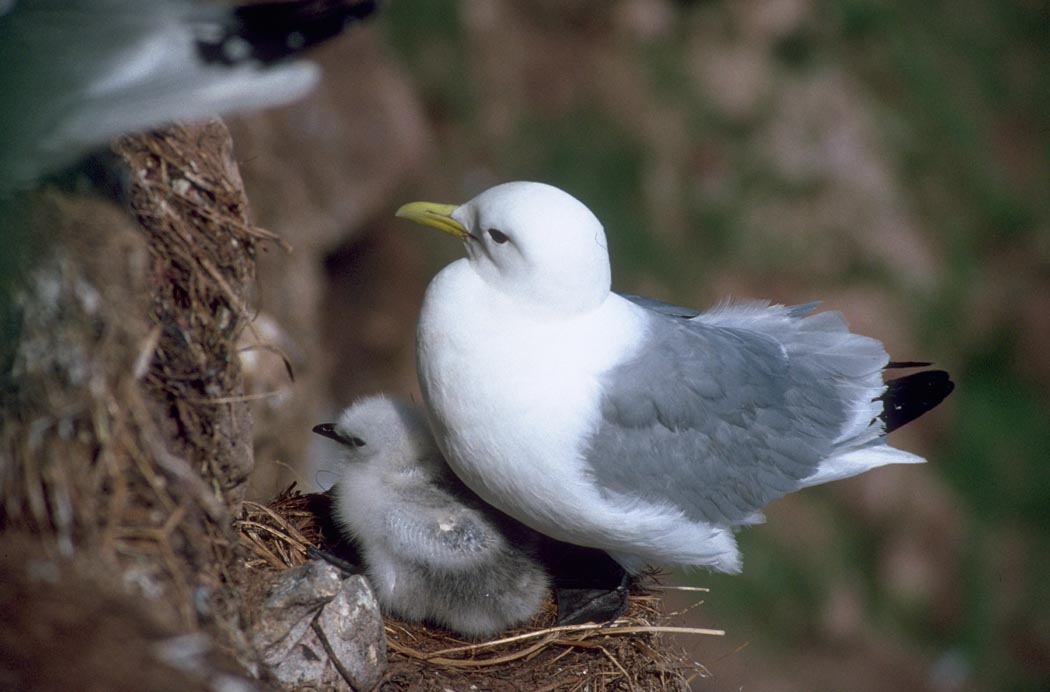 Black-legged Kittiwake and Chick (Rissa tridactyla)